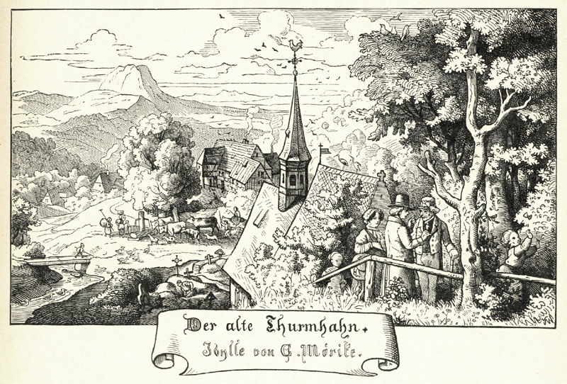 Ludwig Richter, Illustration of Der alte Turmhahn by Eduard Mörike